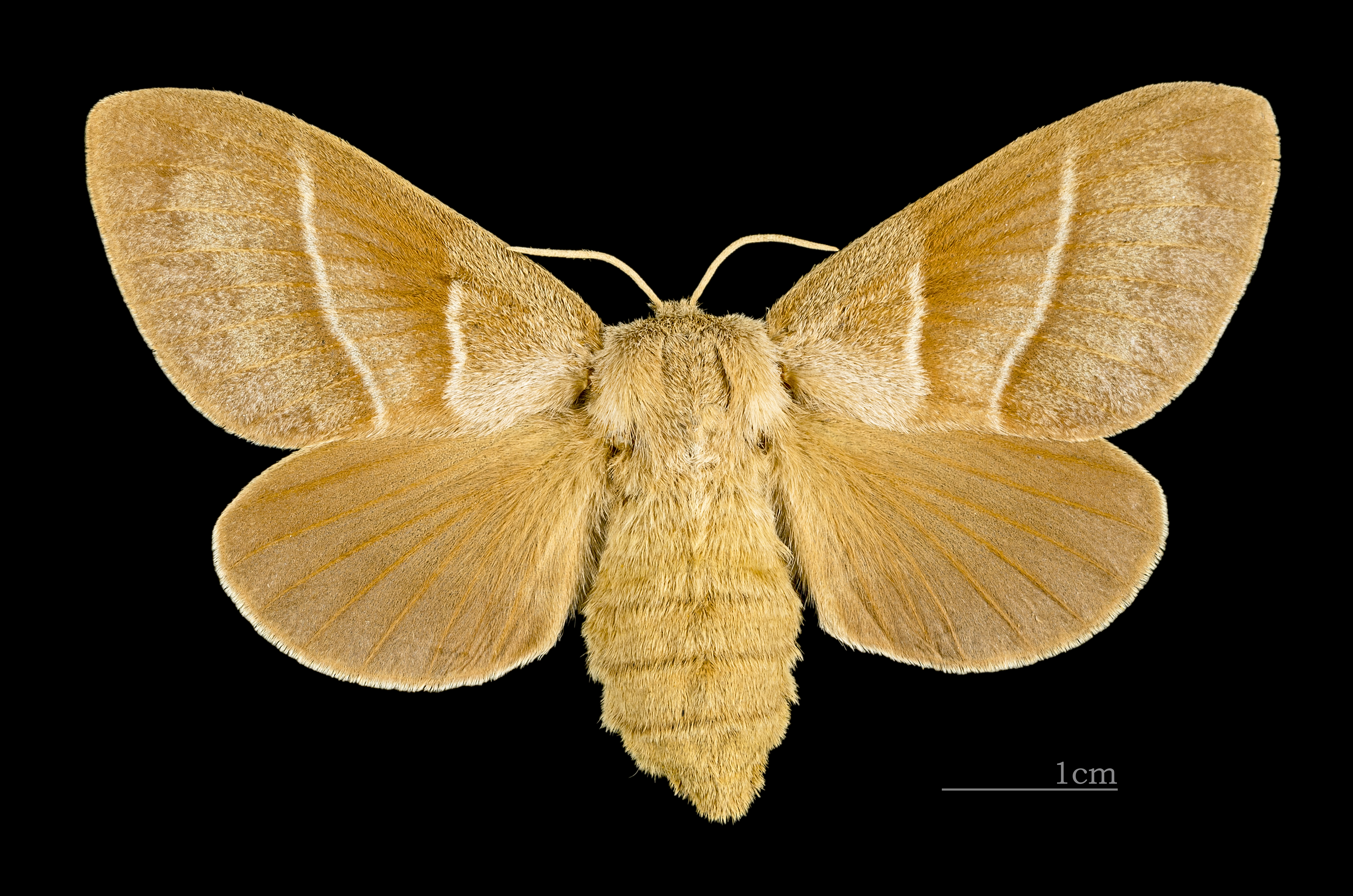 Fox moth - Dorsal side